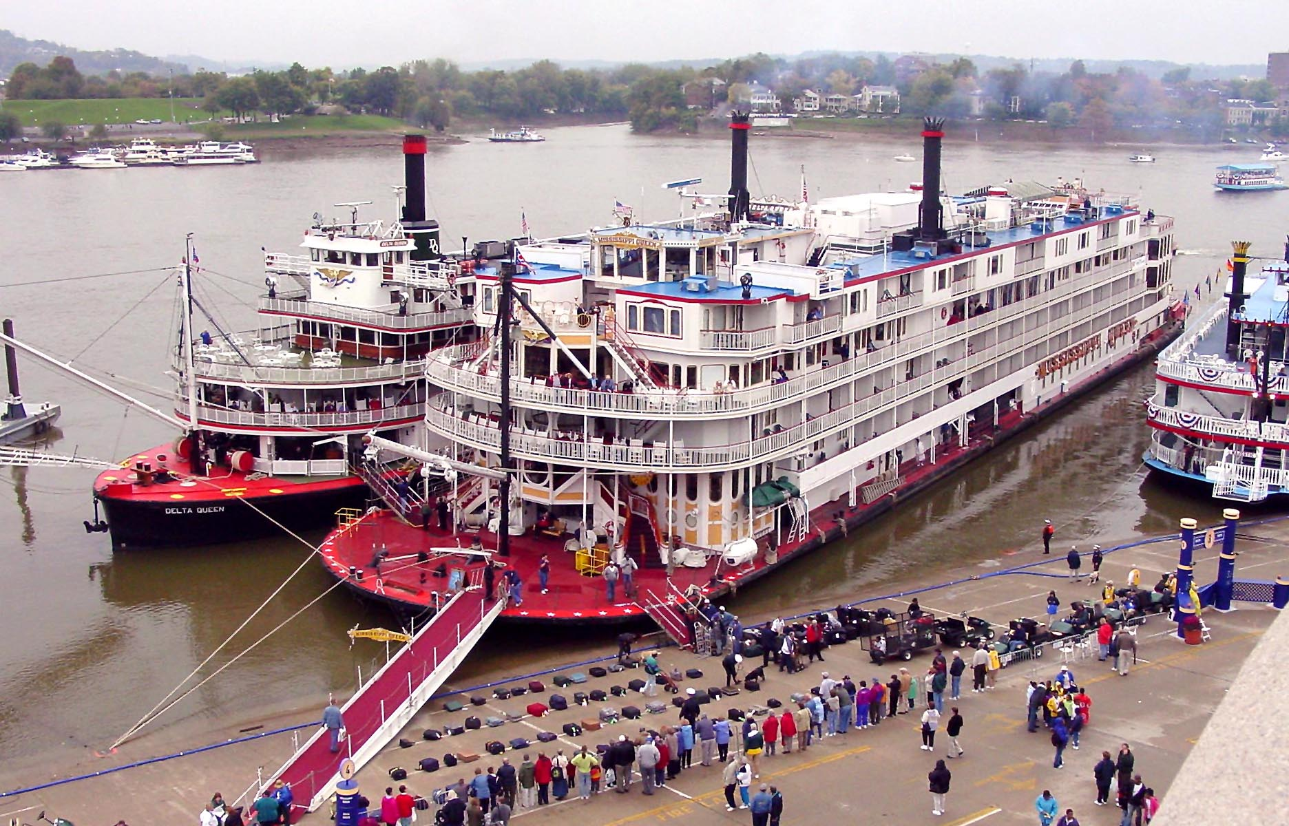 Mississippi Queen ready for passengers to embark at the Tall Stacks Festival in Cincinnati Ohio October 2003